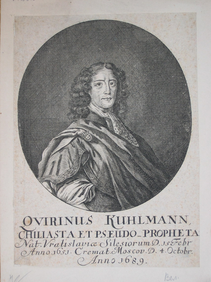 Engraved portrait of Quirinus Kuhlmann, German "poet, chiliast, and false prophet" (1651-1689).